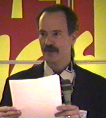 Mark Gruenwald at a comics convention in the early 1990s video still